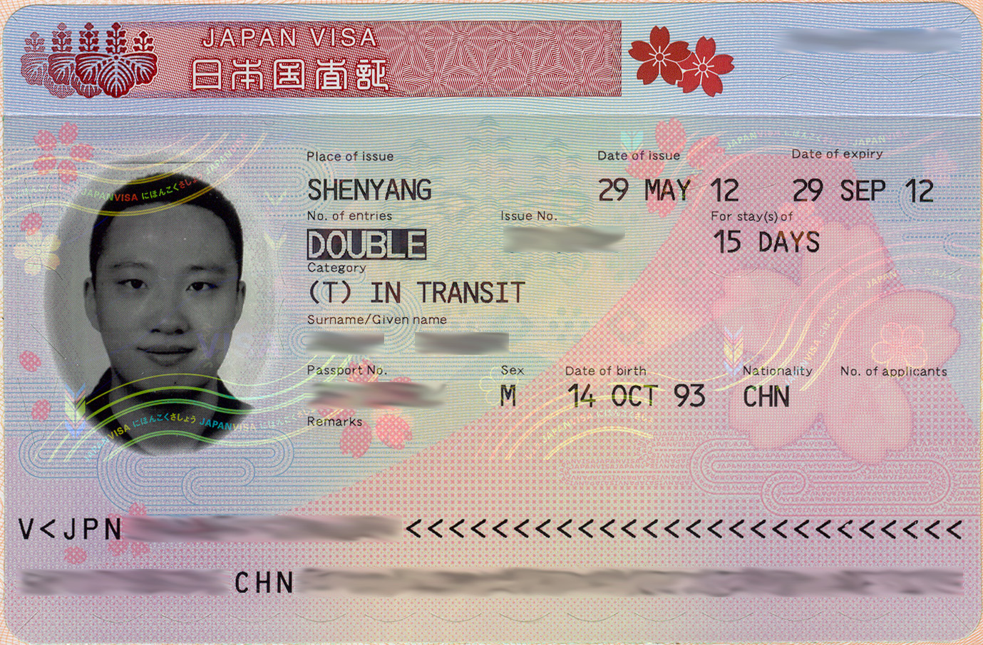 Japan transit visa for double entry issued by Consulate General of Japan in Shenyang, China in 2012.